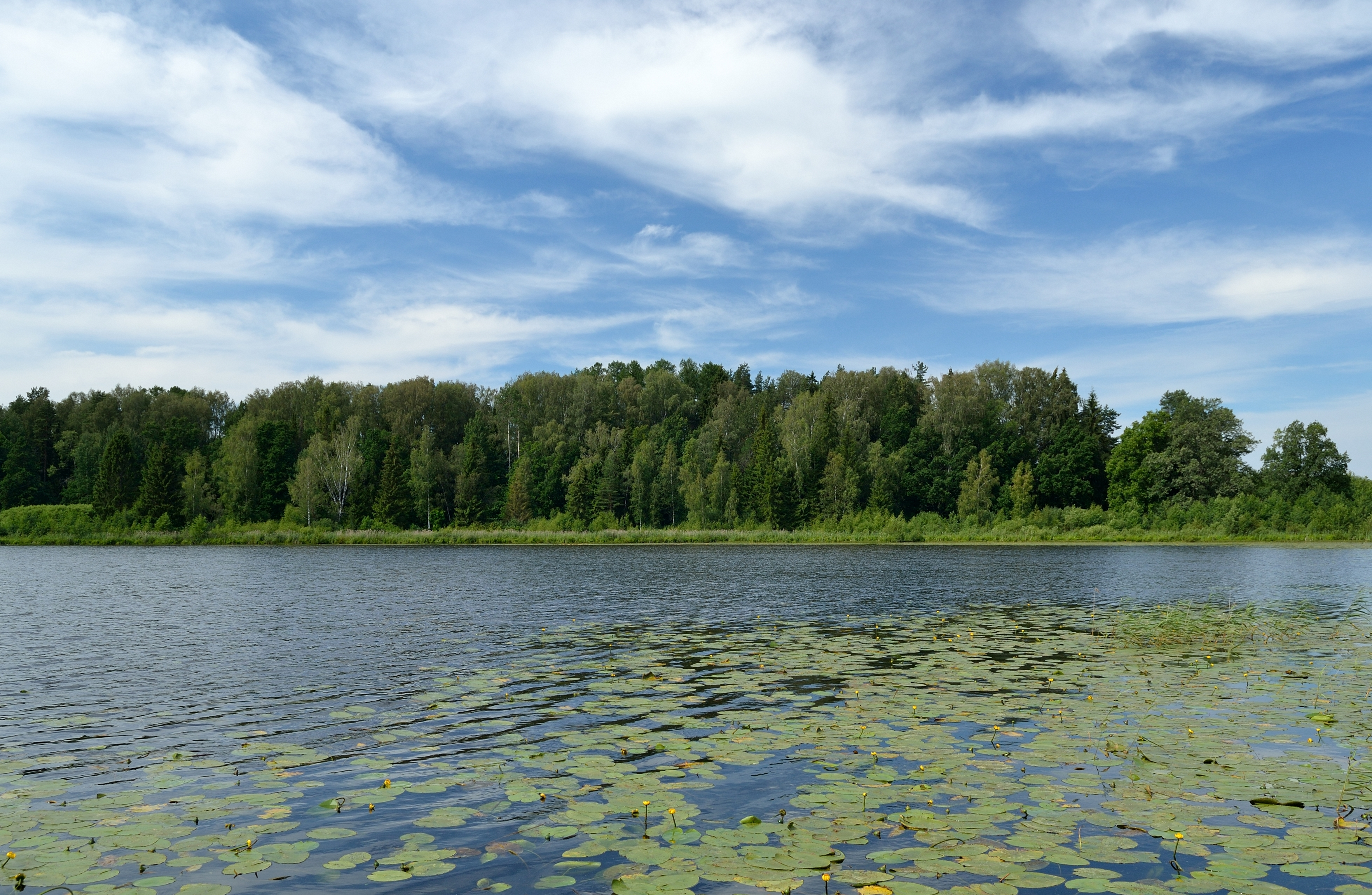 Lake Mooste